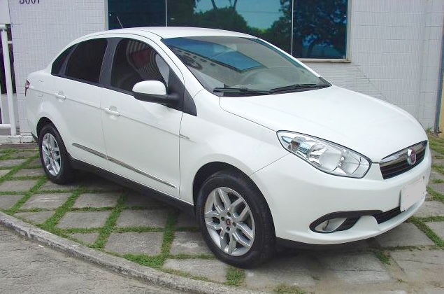 Fiat Grand Siena 1.6 E.Torq 16V Dualogic Flex engine